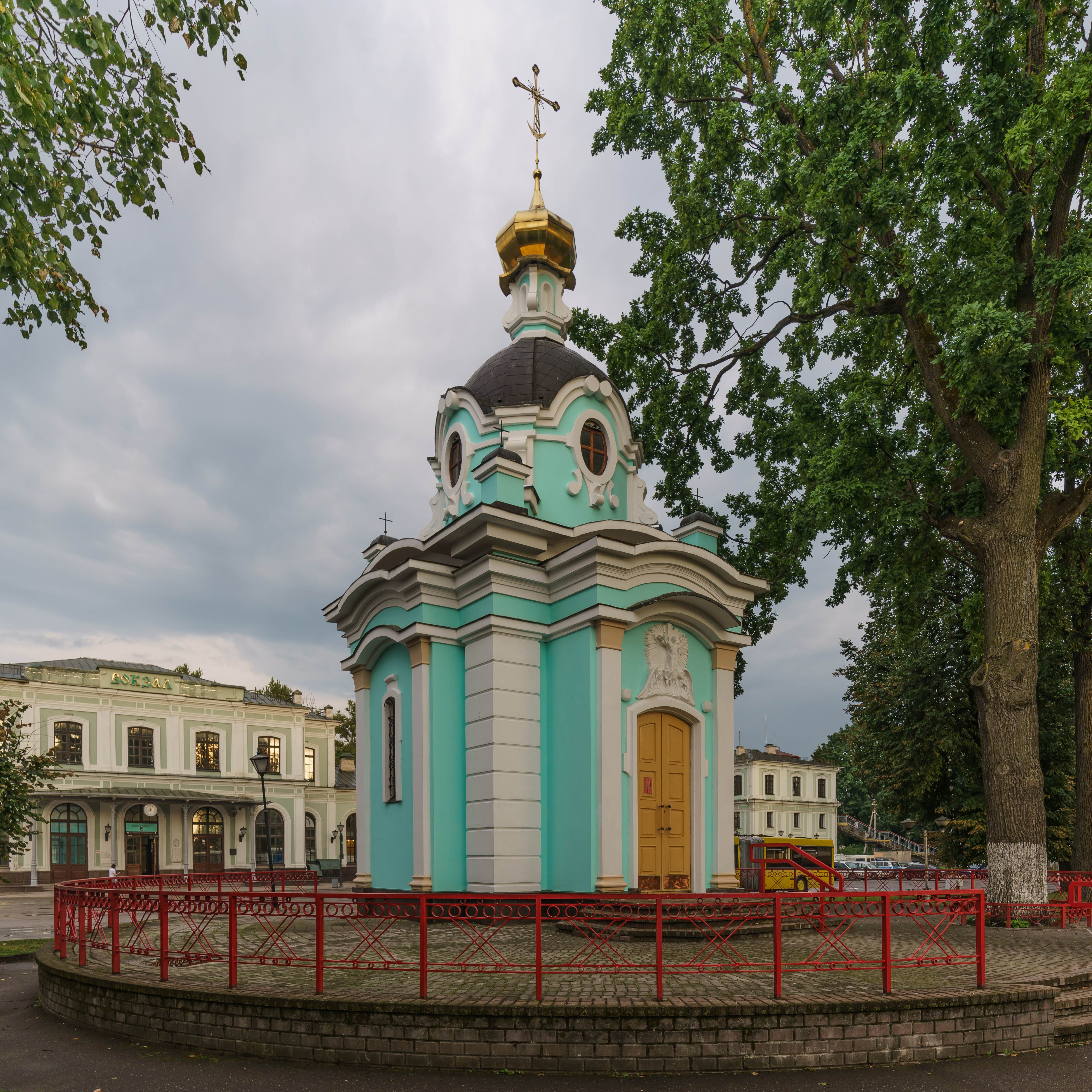 Chapel of the Resurrection of Christ at the railway station in Pskov, Russia